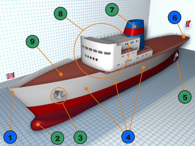 Ship illustration.